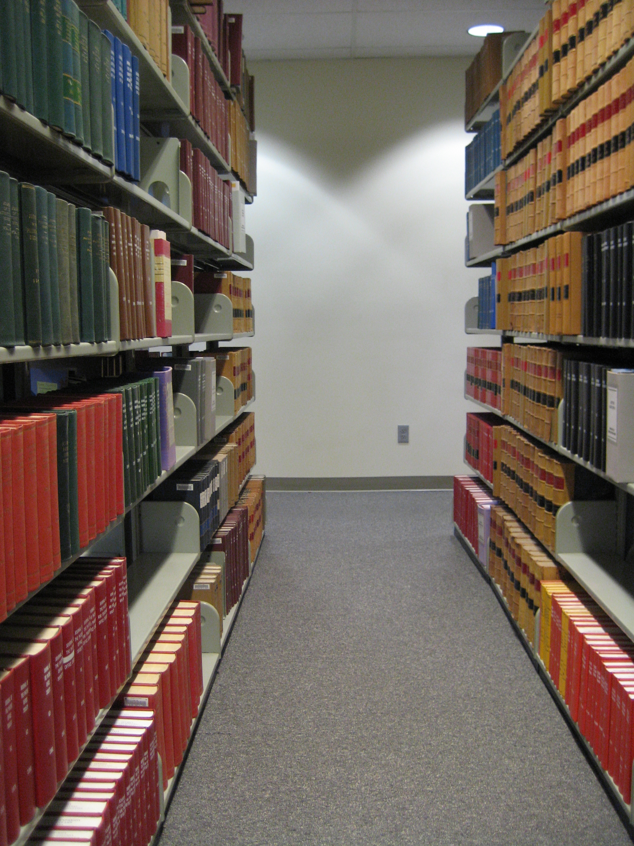 Willamette University College of Law Long Law Library.